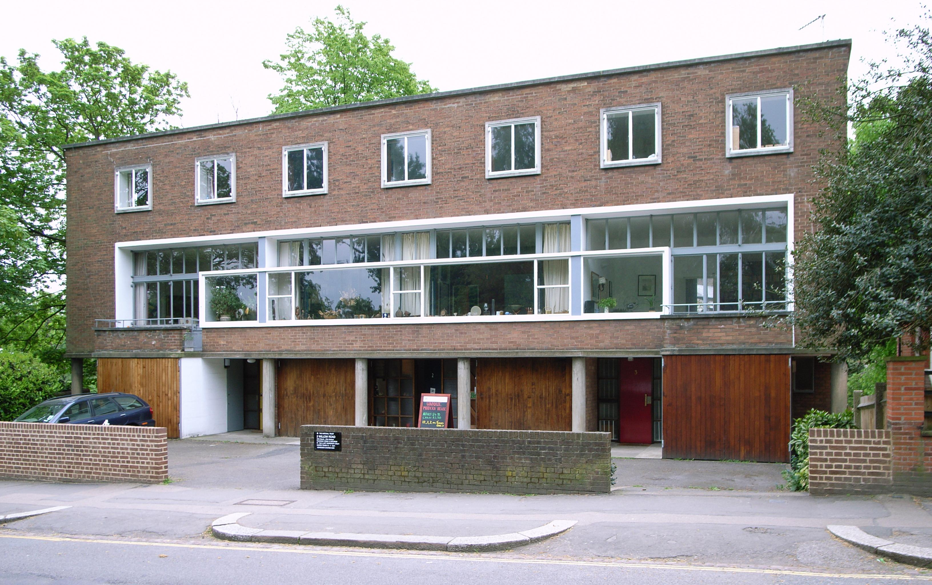 1-3 Willow Road, Hampstead (1940) by Ernő Goldfinger. Number 2 (the middle house) was Ernő Goldfinger's own house for many years. It's now owned by the National Trust, and they do tours for visitors on Saturday afternoons (and possibly other times). It's well worth a visit - the interior is done with great concern for materials and attention to detail. It's very successful, and much less austere and difficult than you might imagine. Likewise, you really need to see the outside of the house at close quarters to fully appreciate it - I particularly liked the wood and translucent glass front door and hall area. There's also an interesting range of modern art acquired by Goldfinger on display in the house.